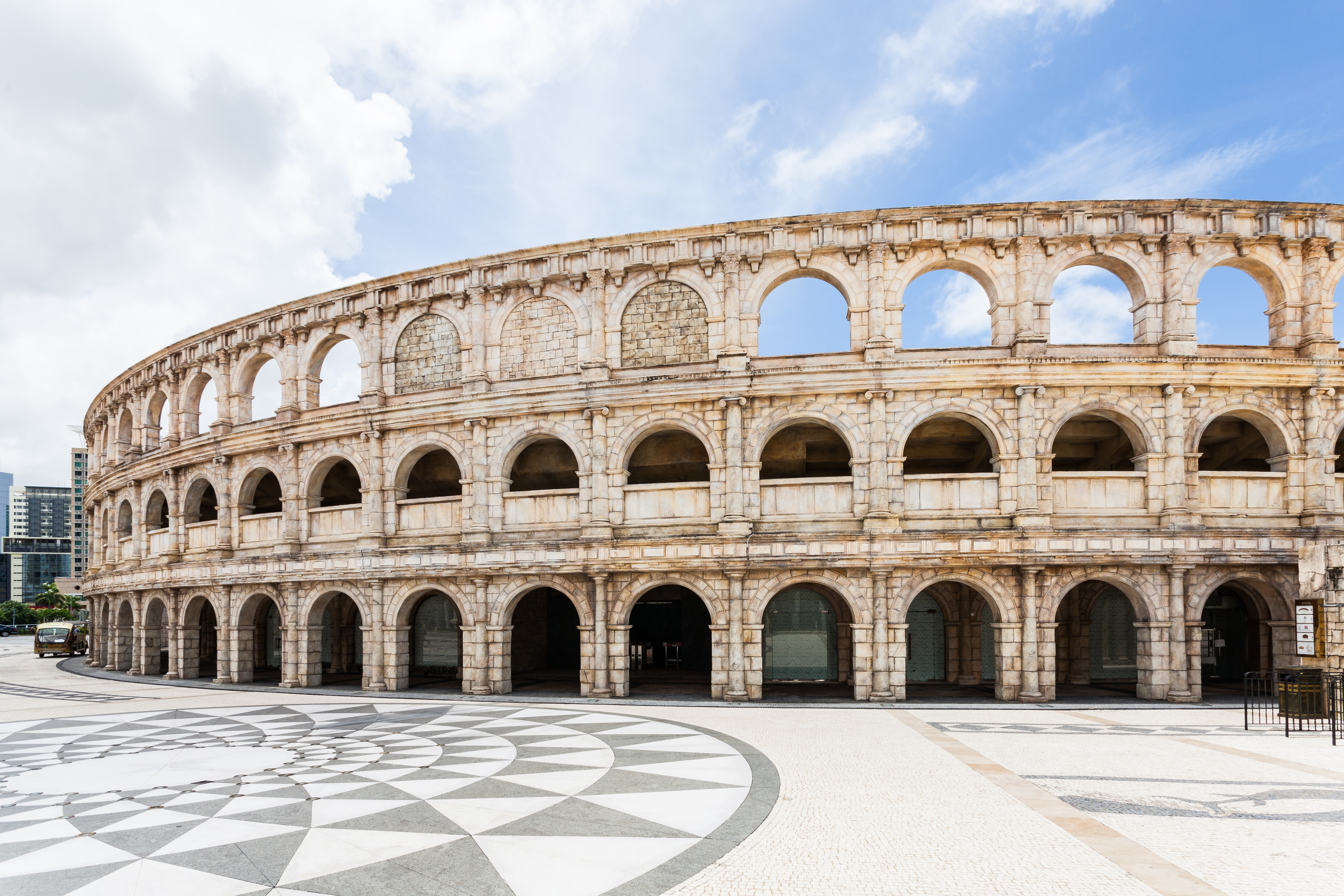 Fisherman's Wharf, Macau